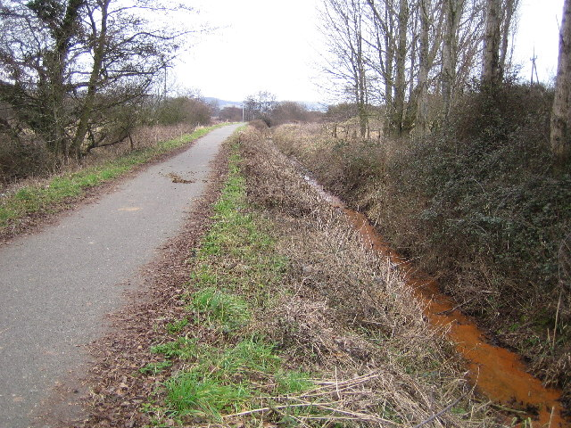 National Cycle Network Route 23. The route here follows the track bed of the long dismantled Sandown to Newport railway. Viewed looking eastwards from Horringford, which used to have a station on the railway.